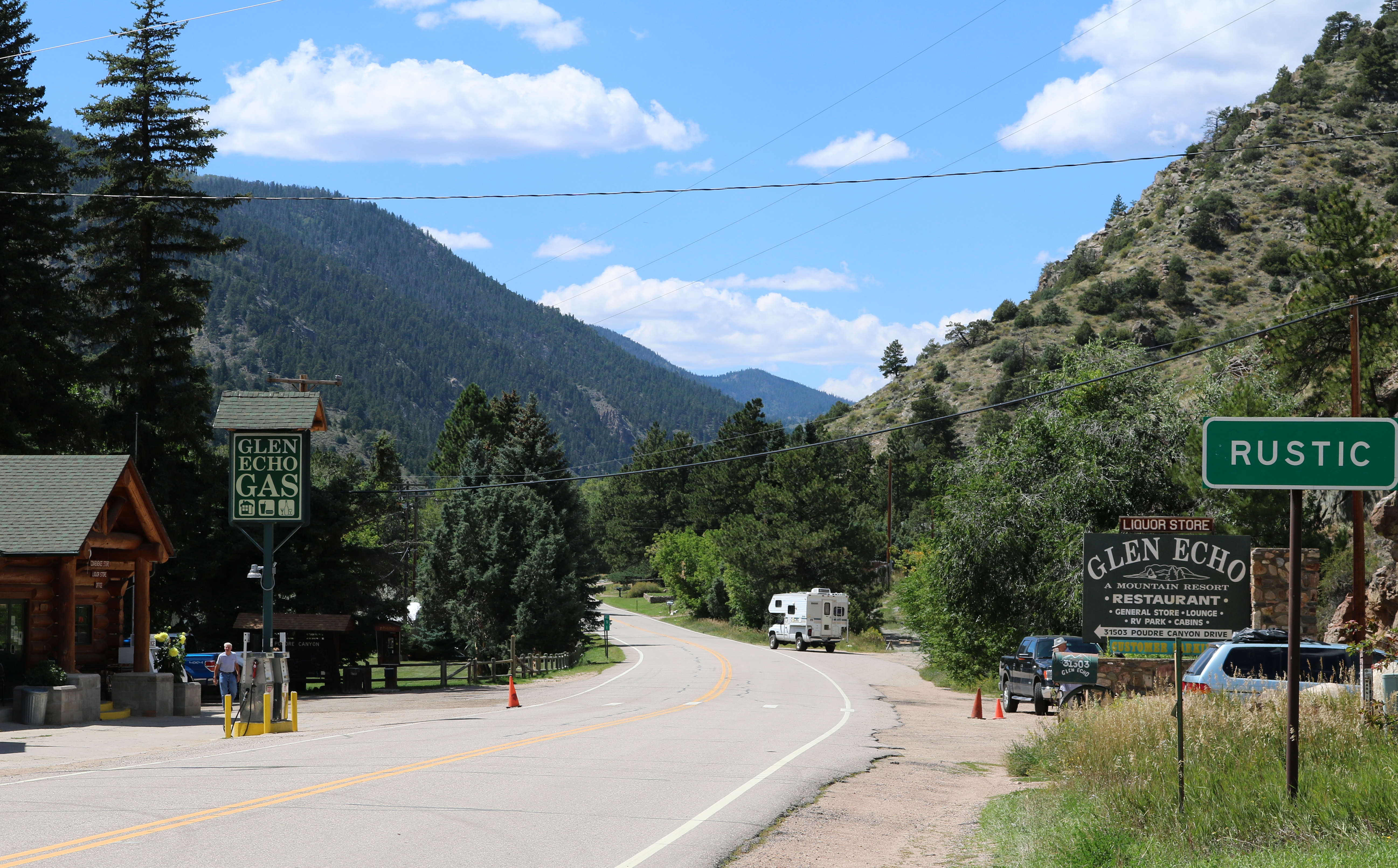 The community of Rustic, Colorado. The western part of Rustic is also referred to as Glen Echo. The road in the picture is Colorado State Highway 14, also called Poudre Canyon Road. Rustic is in Larimer County, Colorado.